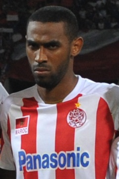 Mohcine Iajour, September 2011 (cropped)